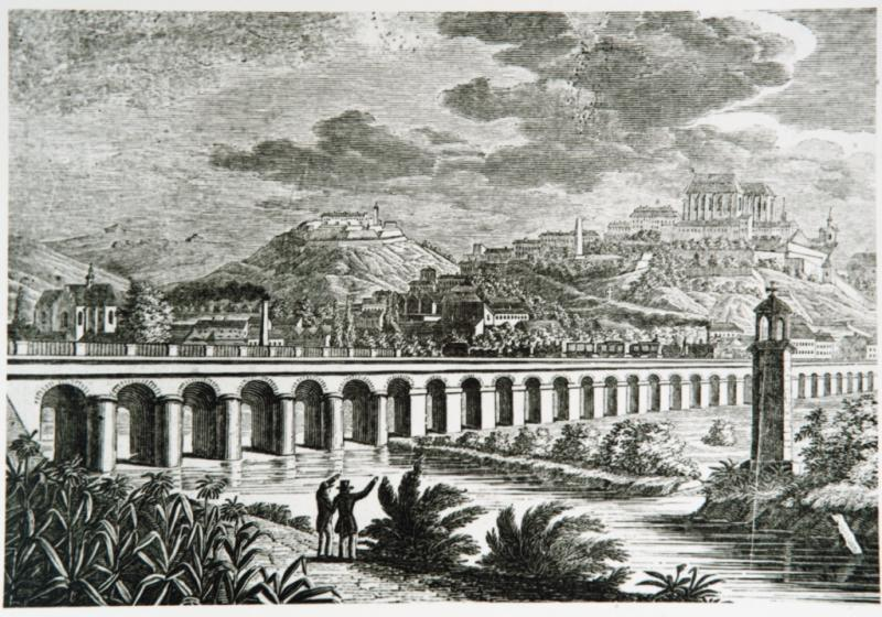 Brno-Viadukt - Hälfte des 19. Jahrhundert